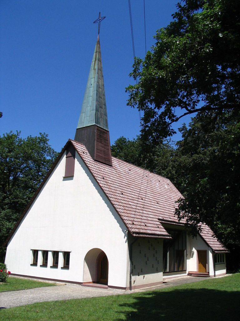 Auferstehungskirche (“church of resurrection”) in Straubenhardt, Germany